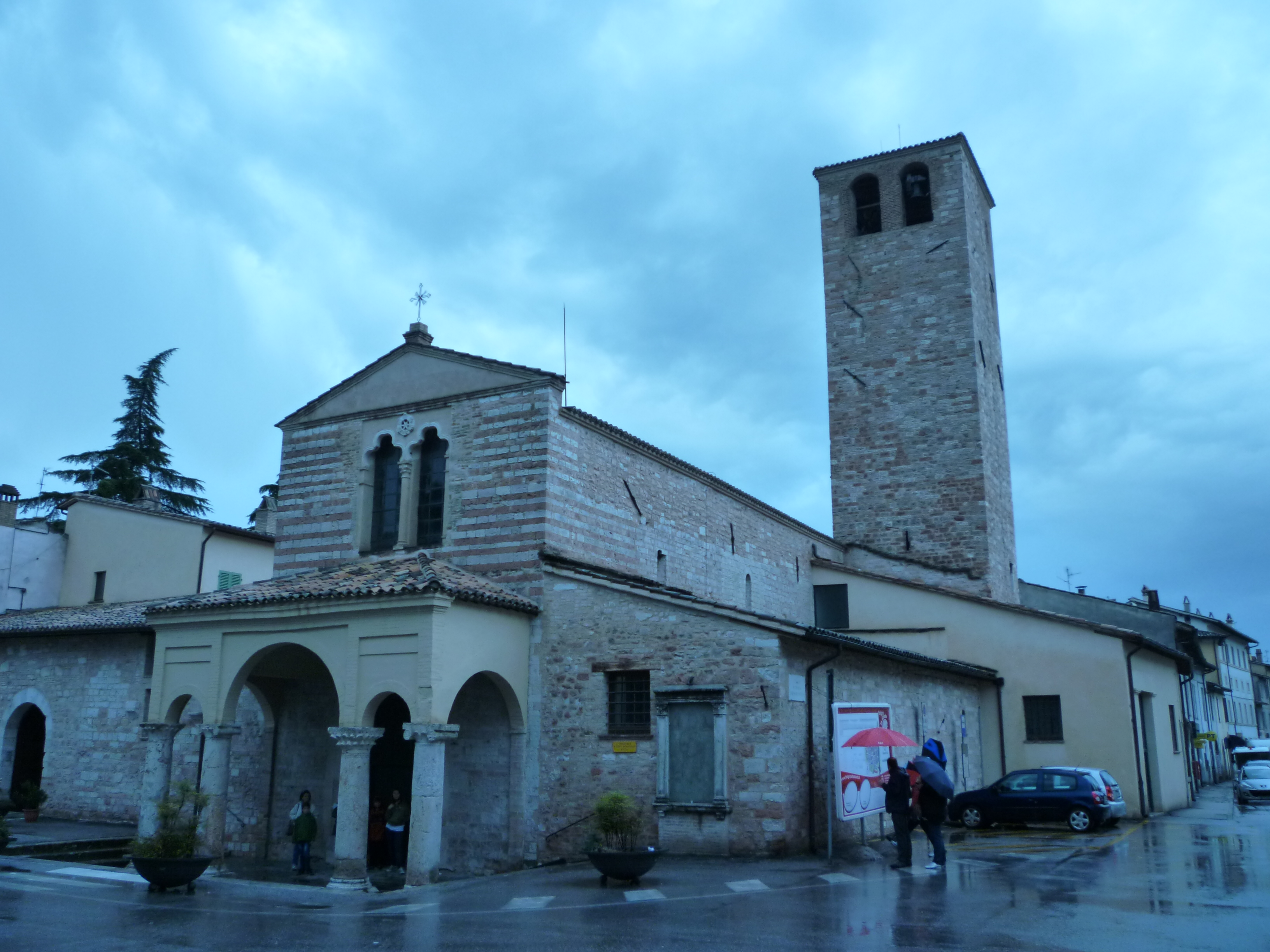 Basilica of Santa Maria Infraportas in Foligno